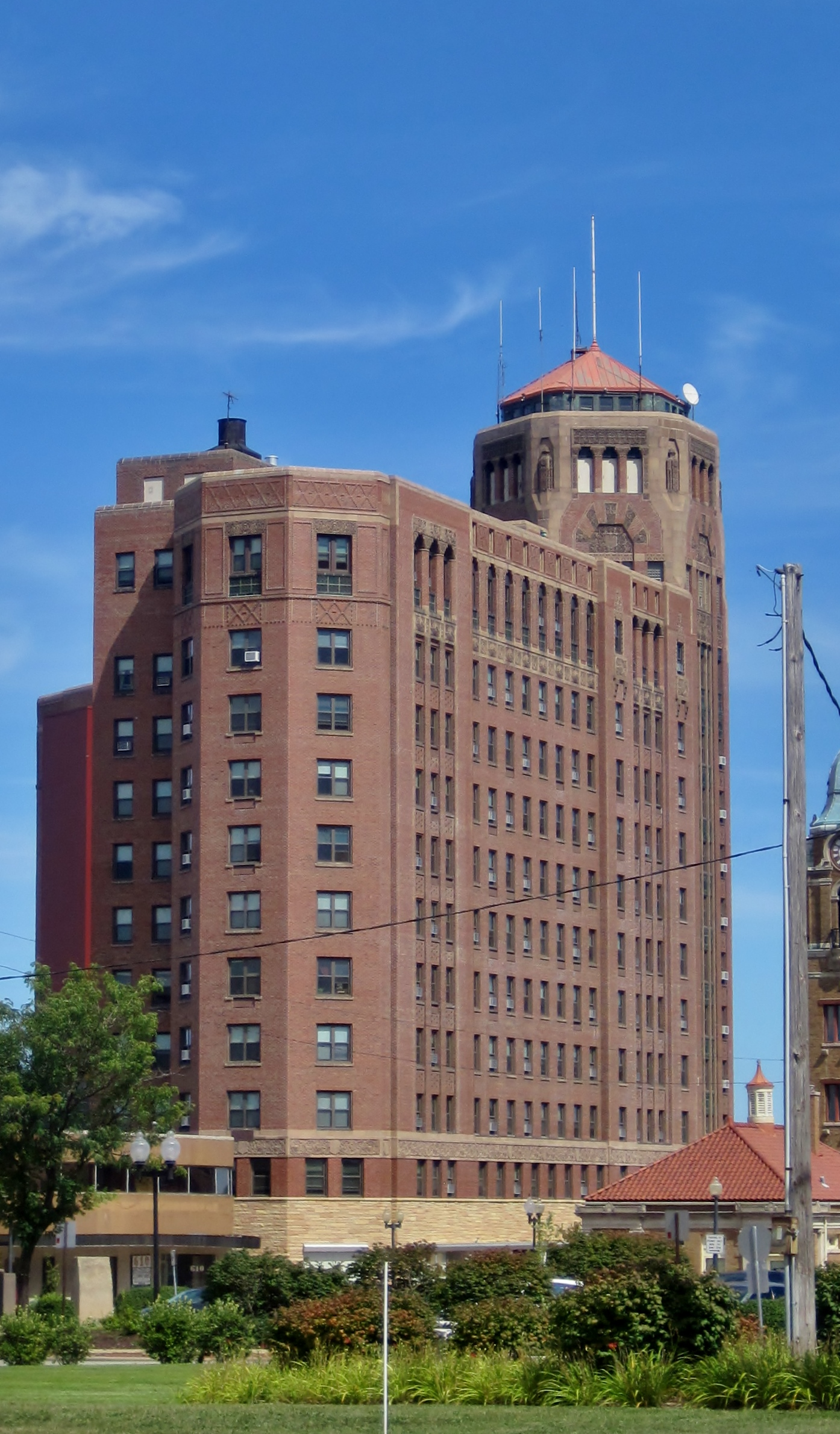 Faust Hotel in the East Rockford Historic District (1927). Architect Eric E. Hall was the Cook County architect from 1914 to 1942. Built at a cost of $2.75 million, the hotel was named after Levin Faust, a Swedish settler to Rockford. Faust was the principal investor in the hotel.